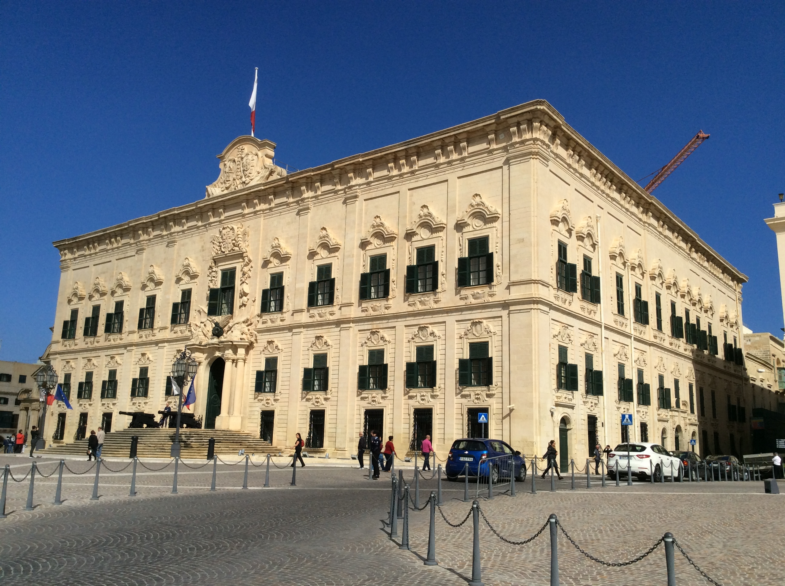 Auberge de Castille This media is about Maltese cultural property with inventory number 01127.